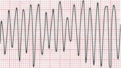 Ventricular Flutter shown in an ECG.